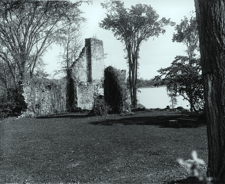 Photograph, Ruins of old fort, Ste. Anne de Bellevue, QC, about 1895, Wm. Notman & Son, Silver salts on glass - Gelatin dry plate process - 20 x 25 cm